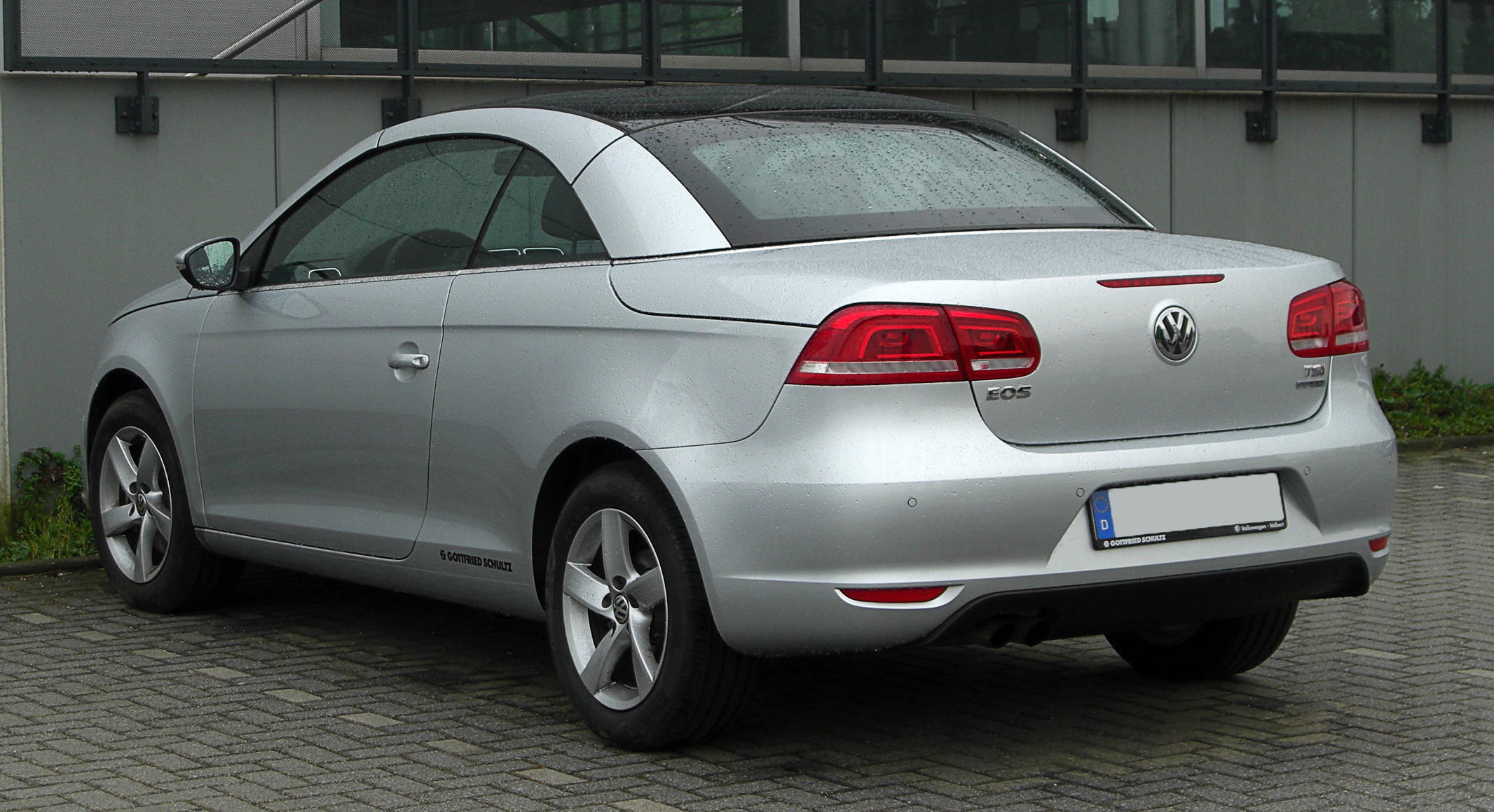 VW Eos 1.4 TSI BlueMotion Technology (Facelift)